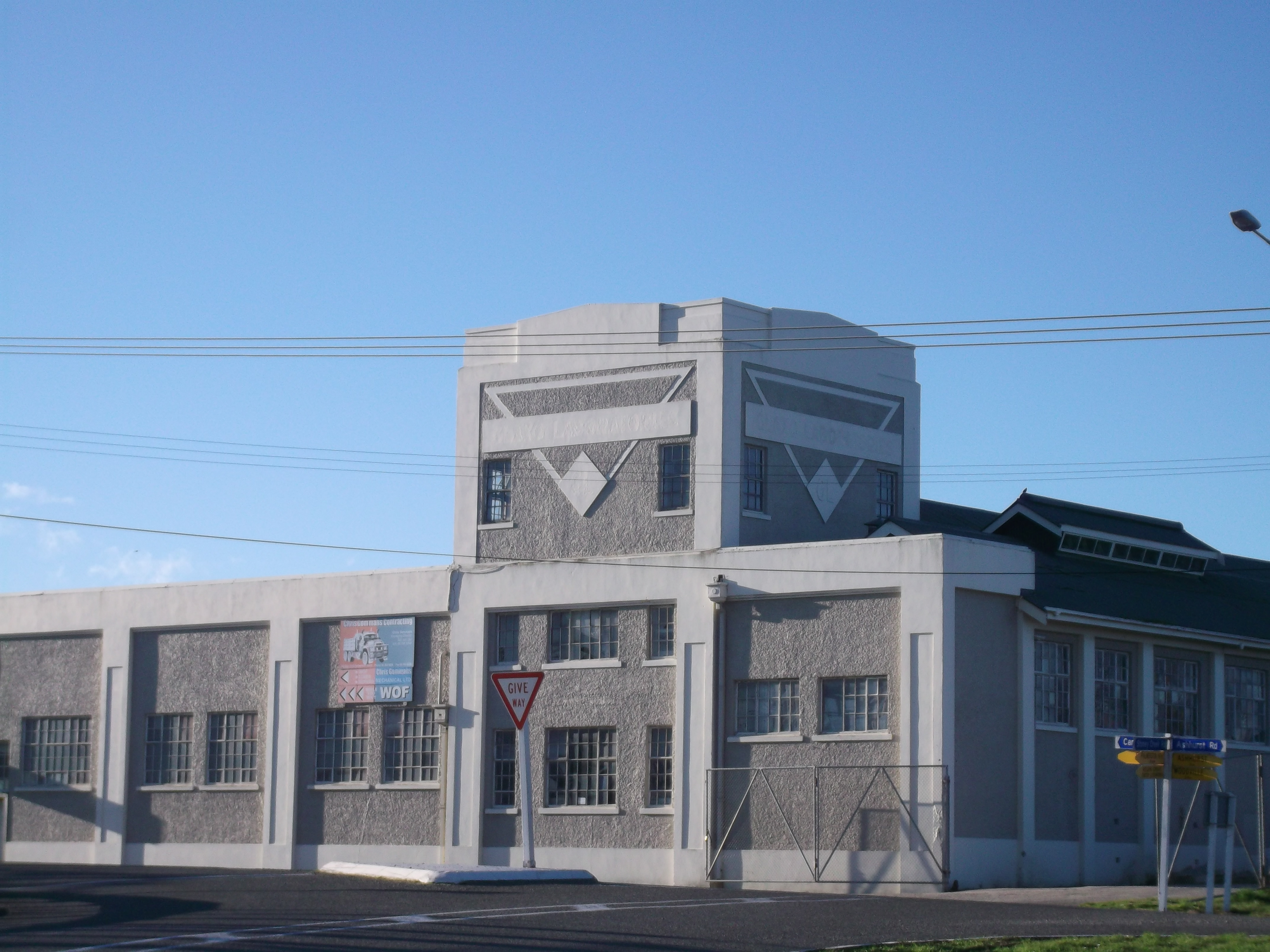 A view of the historic Glaxo factory in Bunnythorpe, New Zealand.